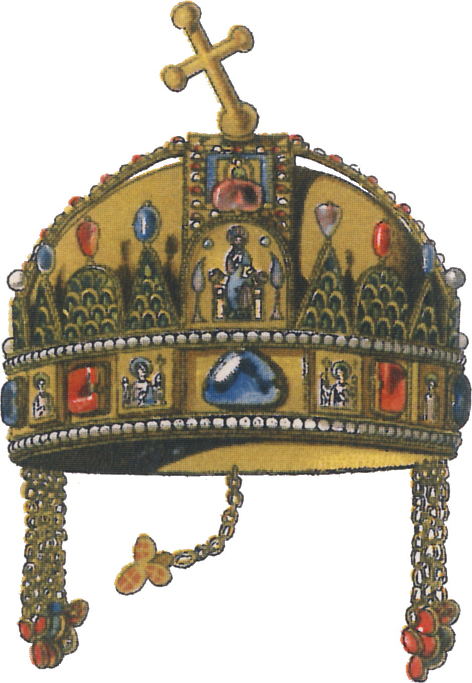 Holy Crown of Hungary